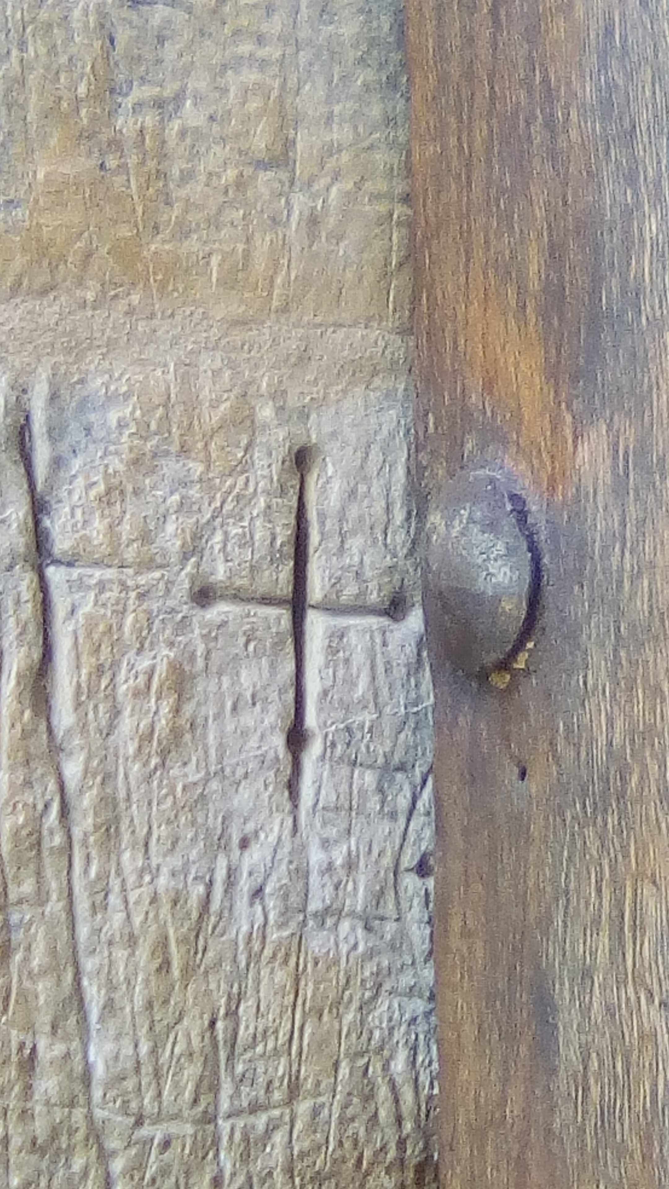 L'unione di quattro punti, a formare una croce.